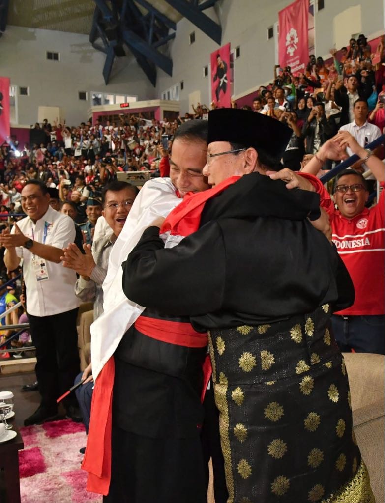 Joko Widodo (president of Indonesia) and Prabowo Subianto (President of Indonesia Pencak Silat Association) hugging Hanifan Yudani Kusumah after she won Gold in the 2018 Asian Games